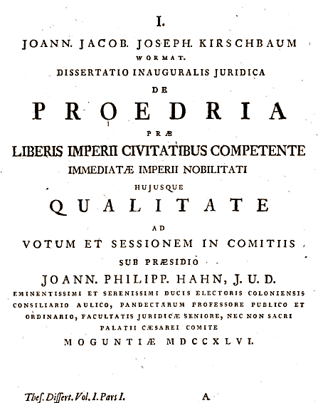 Johann Jakob Joseph Kirschbaum,Juraprofessor in Heidelberg, Dissertation von 1746